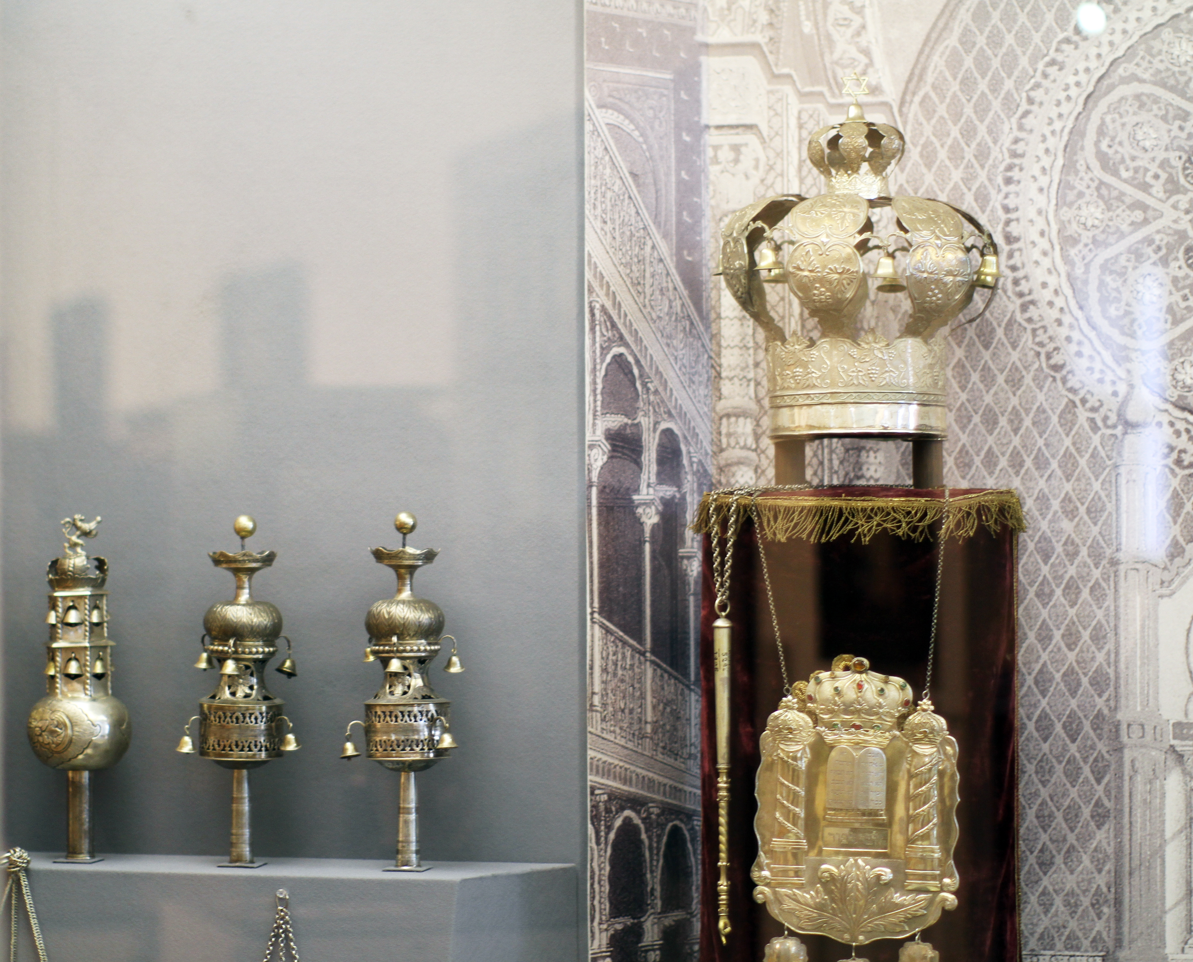 Torah Finials (Rimonim) and jewish ceremonial objects in the permanent exhibition in Kölnisches Stadtmuseum, in Cologne Germany